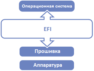 efi stack